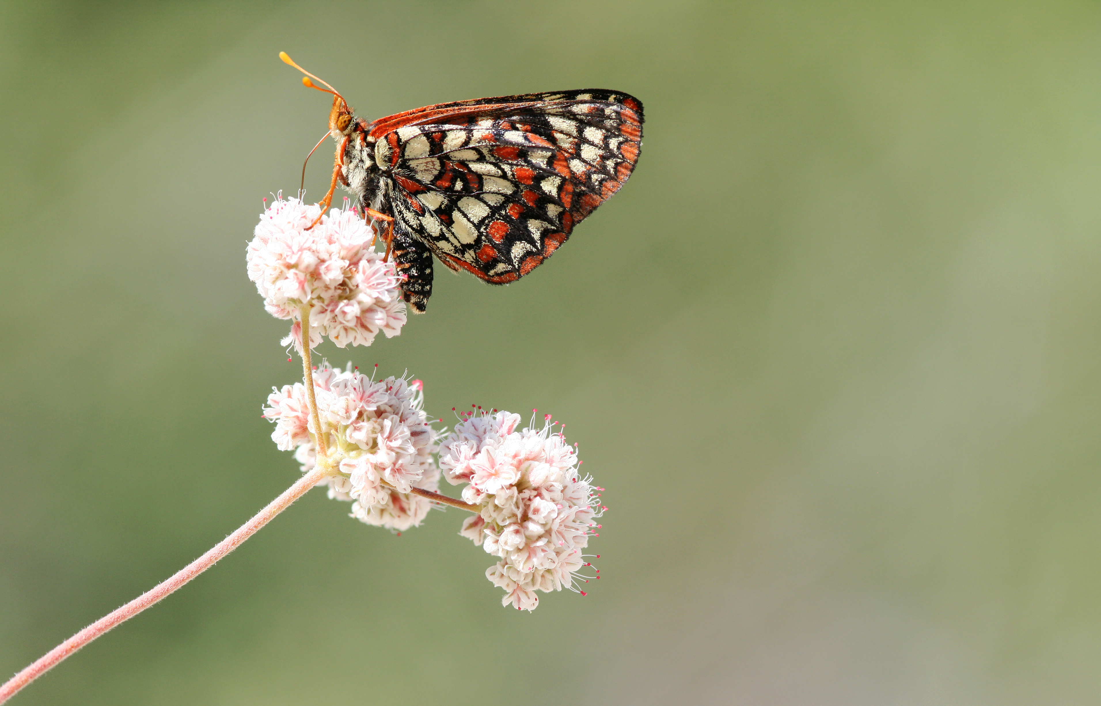 Variable Checkerspot (Euphydryas chalcedona), San Gabriel Mountains, California Finally, the sun was out on my day off! And, butterflies were everywhere getting nectar from one of their favorite California plants: buckwheat. The caterpillar of these butterflies can hibernate for several years in drought conditions (useful for surviving in their habitat--the dry California chaparral). They're about 1.5-2 inches.